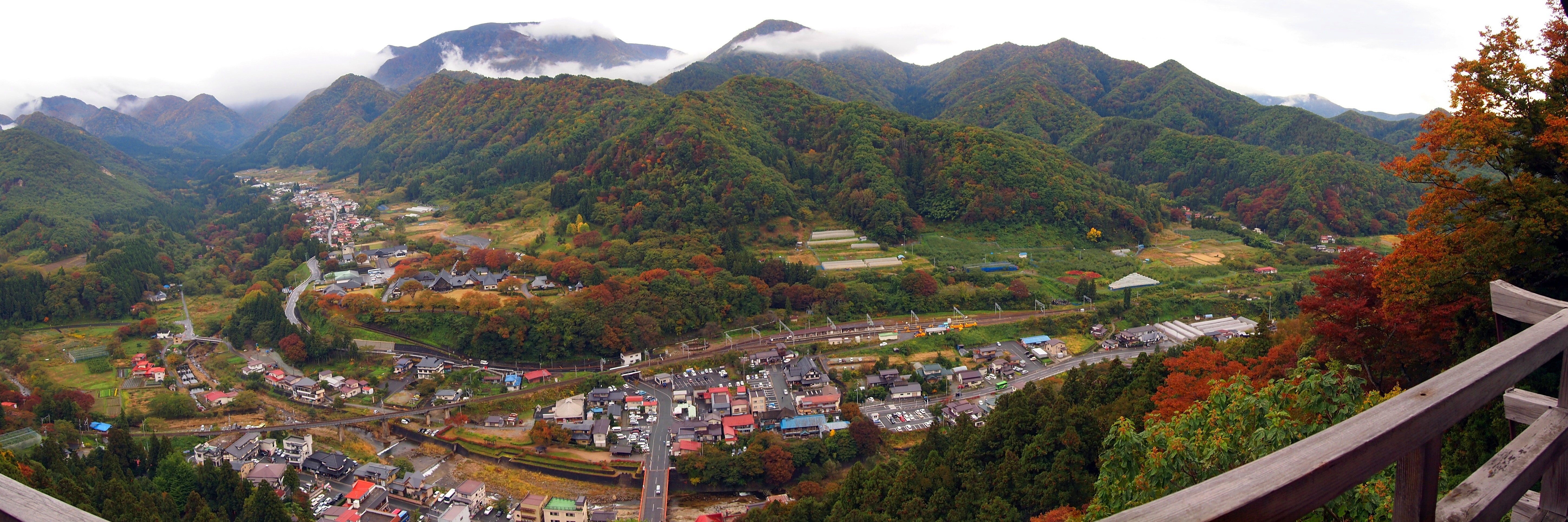 Panorama of Yamadera from Risshaku-ji Godaidō